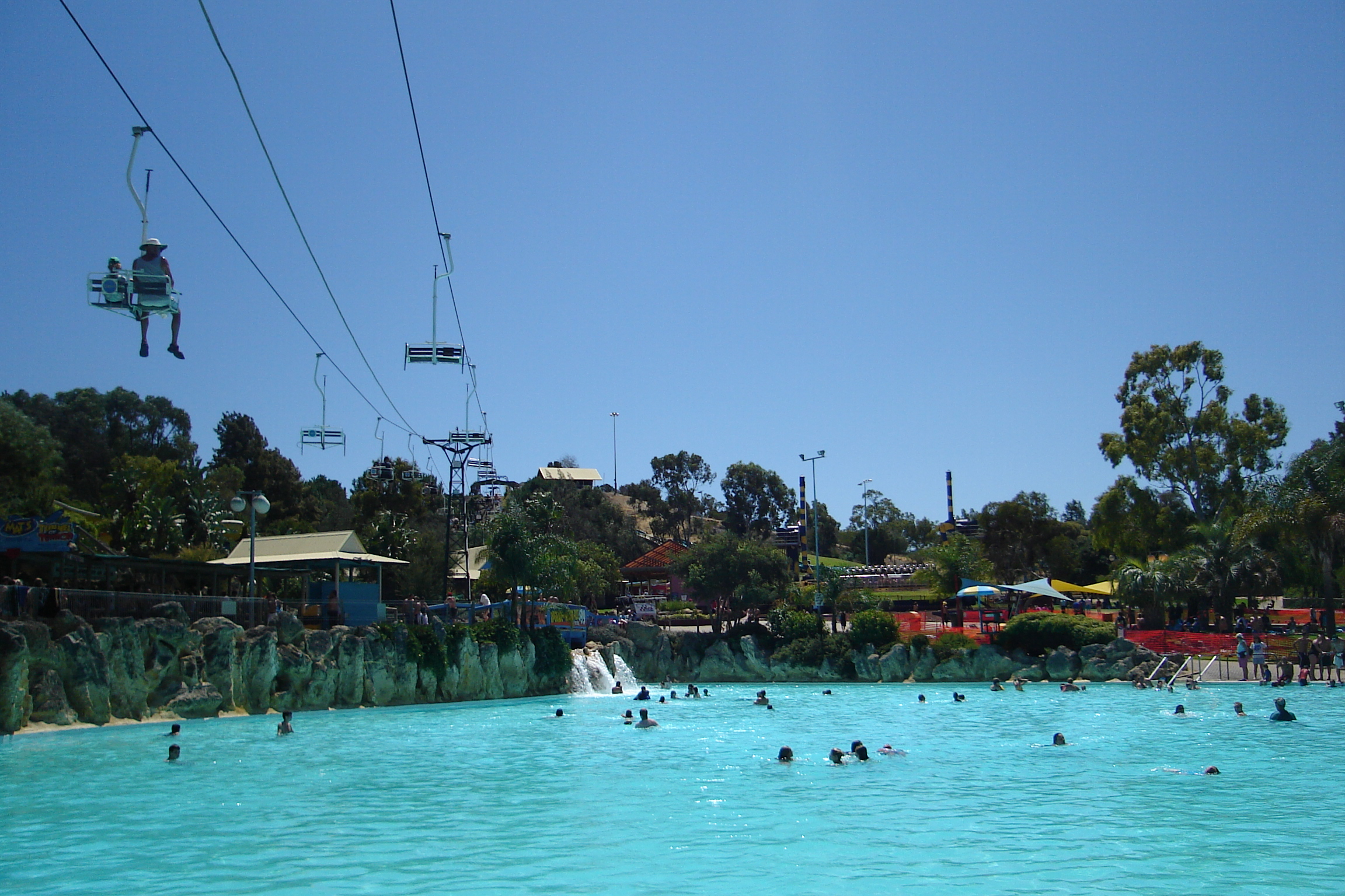 Photo taken by me of the chair lift and pool at Adventure World, Perth.